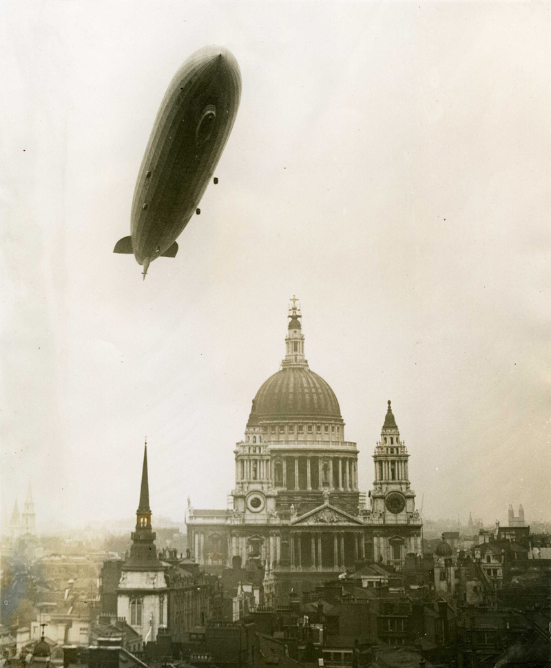 Description: German Graf Zeppelin flies over St. Paul's Cathedral while on a press visit to London. Date: 1930 Our Catalogue Reference: AIR 11/237 This image is from the collections of The National Archives. Feel free to share it within the spirit of the Commons. For high quality reproductions of any item from our collection please contact our image library .